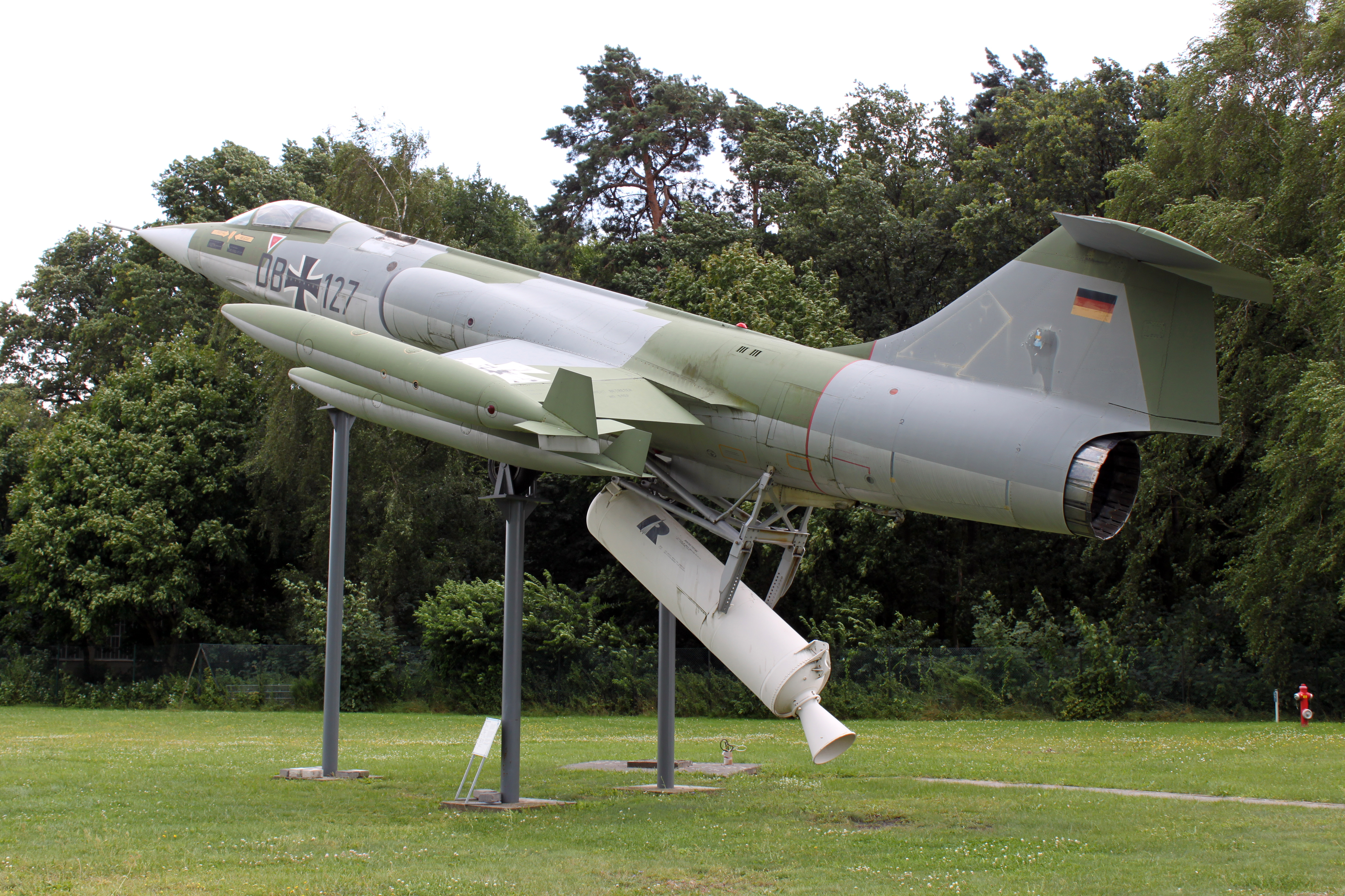 Air Force Museum Berlin-Gatow: Lockheed F-104G ZELL (starfighter with an additional attached booster rocket to be fired into the air from a launching pad like a rocket )